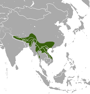 Assam Macaque (Macaca assamensis) range